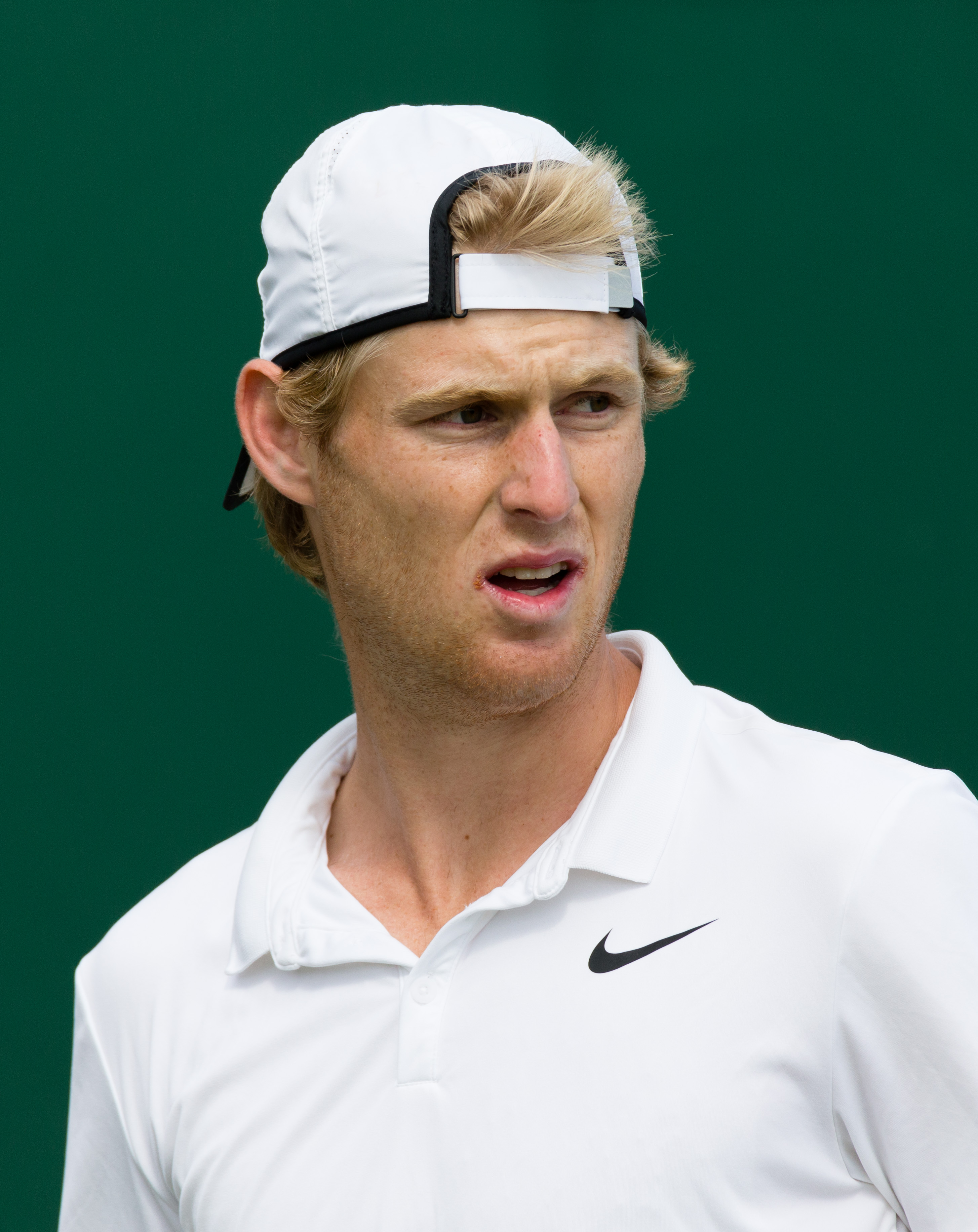 Luke Saville competing in the first round of the 2015 Wimbledon Qualifying Tournament at the Bank of England Sports Grounds in Roehampton, England. The winners of three rounds of competition qualify for the main draw of Wimbledon the following week.